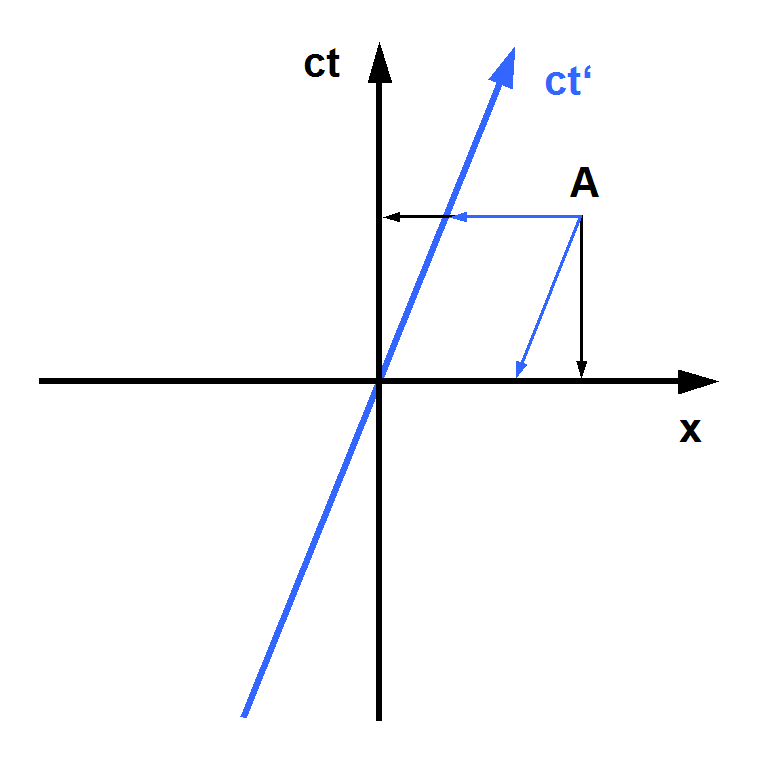 To explain Minkowski diagrams: In Newtonian physics for both observers the event at A is assigned to the same point in time.